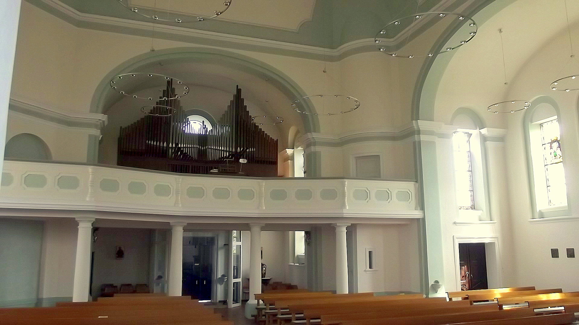 Interior of the roman catholic church in Bachem, Saarland, Germany